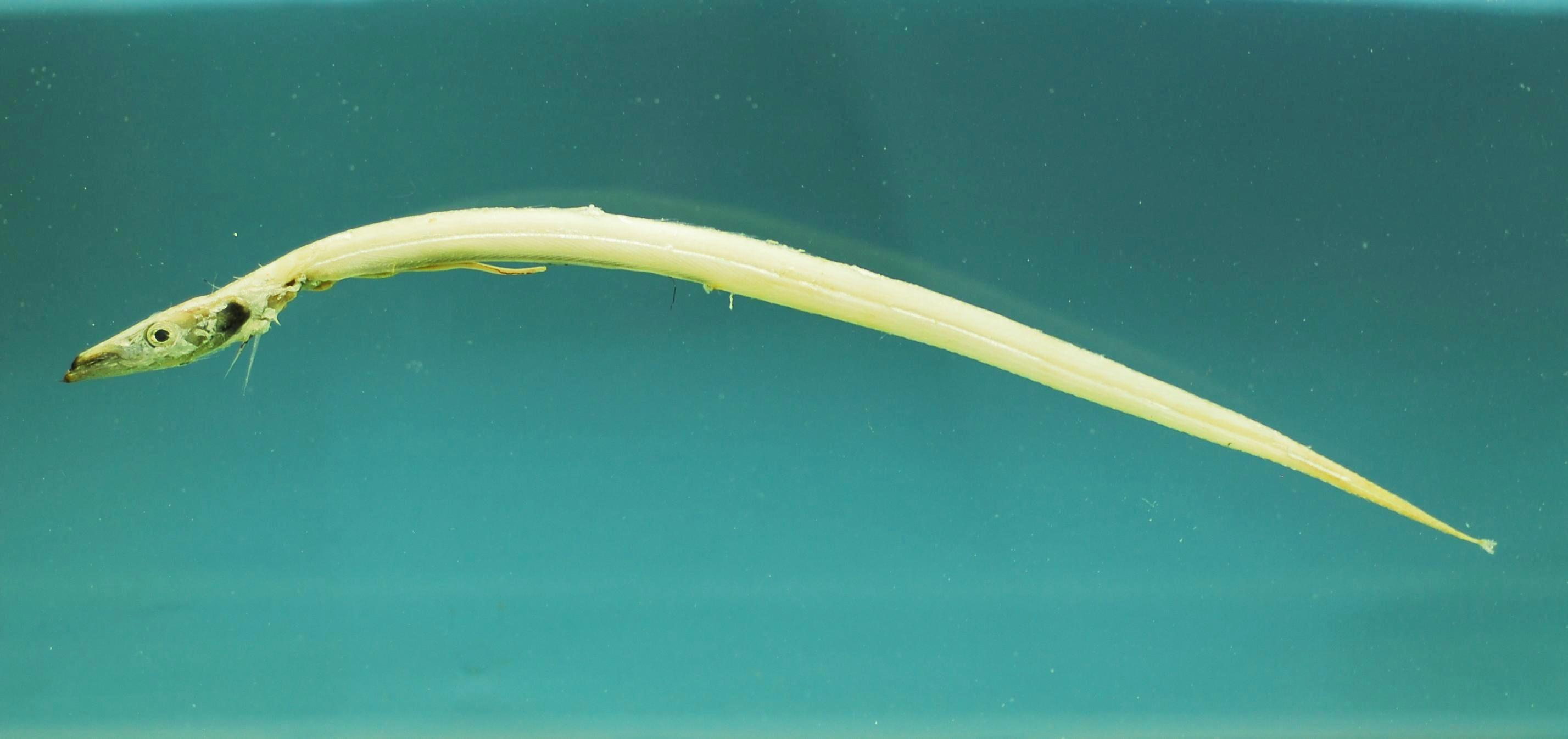 Ribbon scabbardfish ( Benthodesmus tenuis ). Location: Gulf of Mexico.